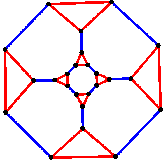 Schlegel diagram